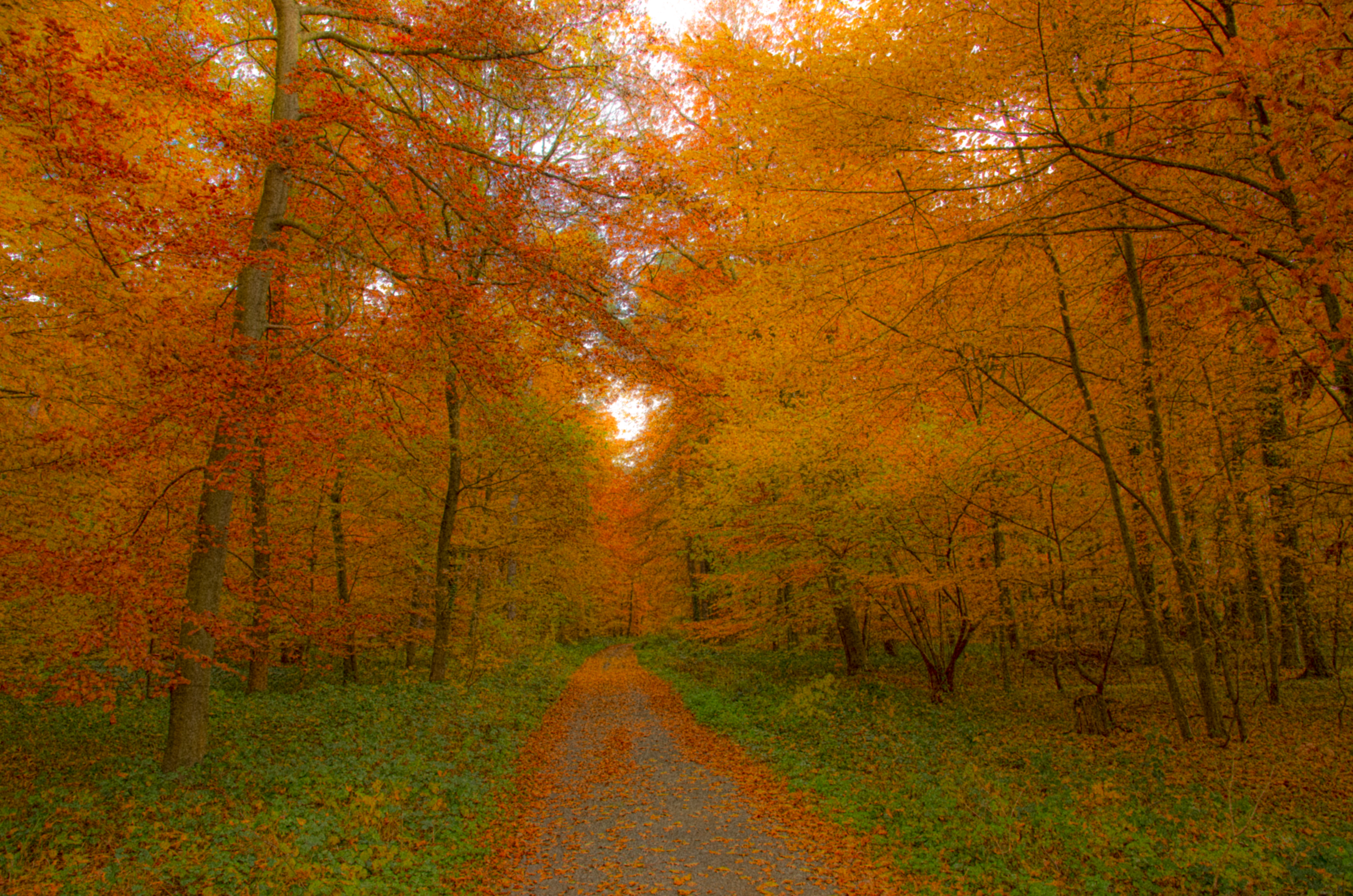 Autumnal deciduous forest in Hesse, Germany (slightly alienated)